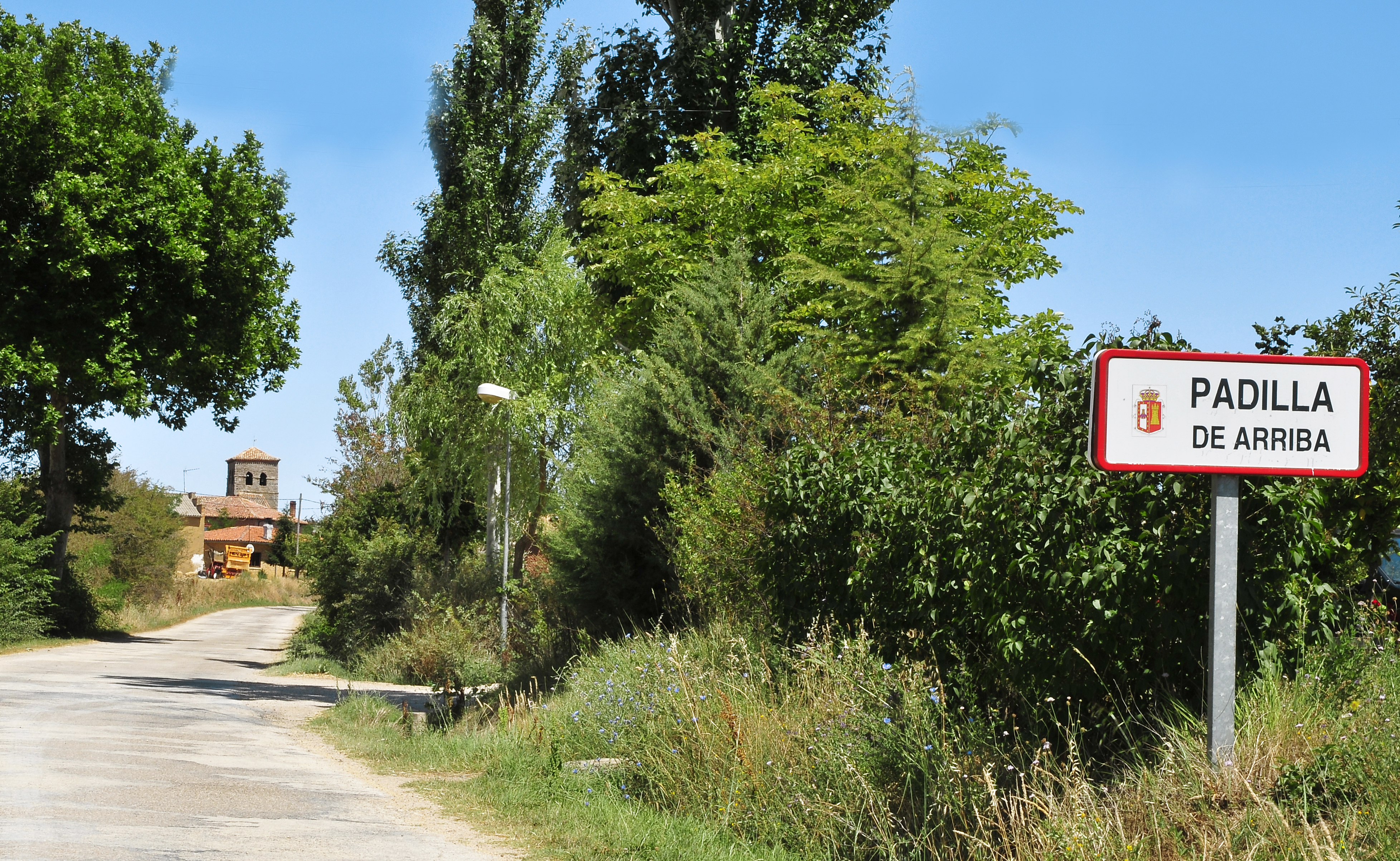 The village and it's surroundings. Padilla de Arriba, Burgos, Castile and Leon, Spain